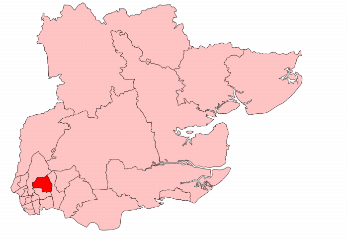 A map of Ilford North constituency within Essex, as it existed from 1945 to 1950.